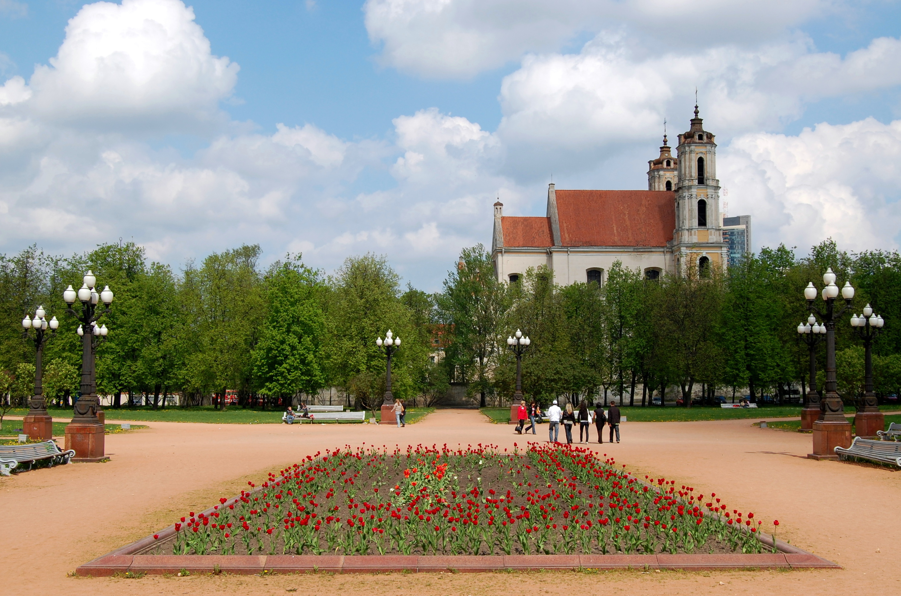 Lukiškės Square near Gediminas Avenue, Vilnius, Lithuania.